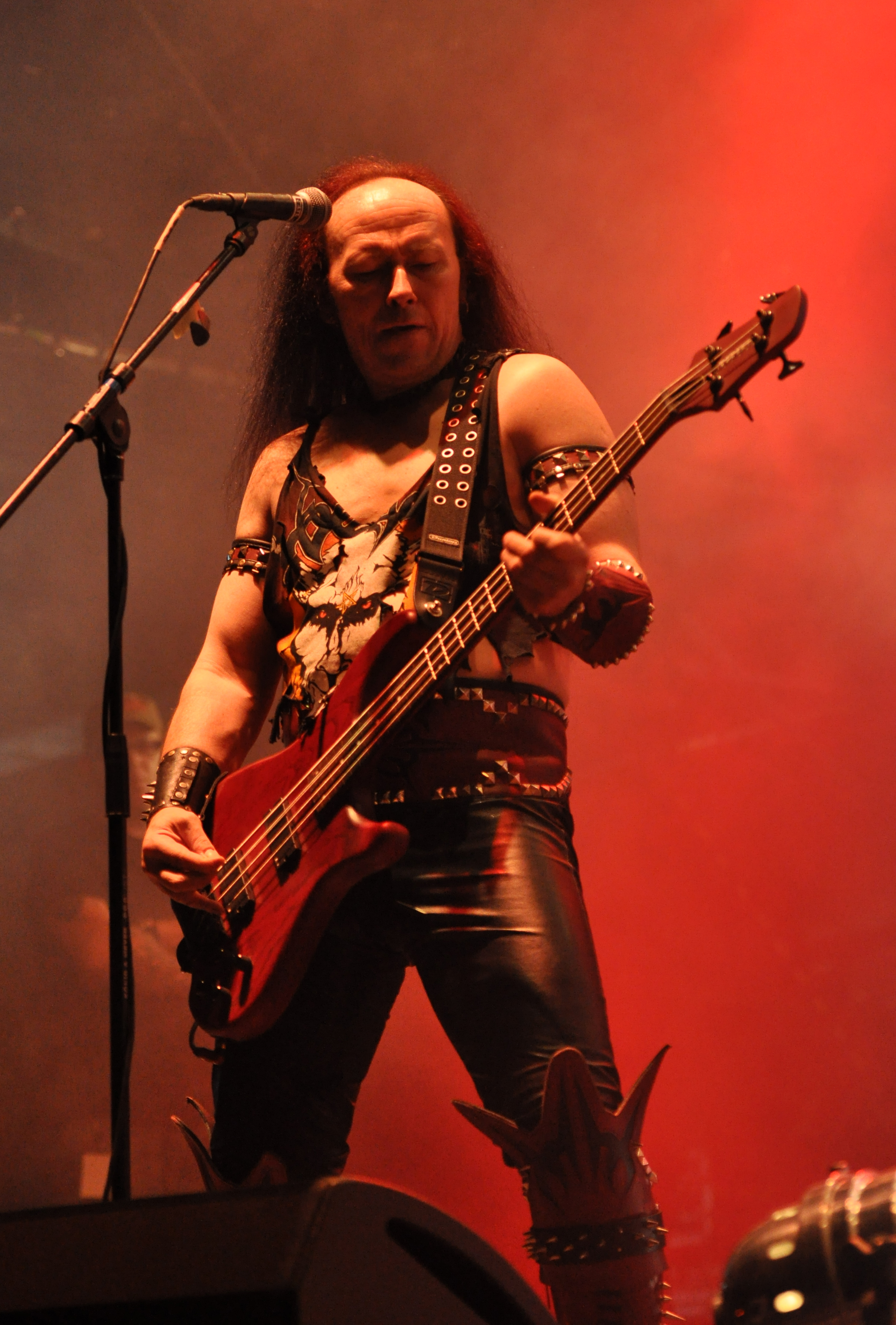 Venom at Party.San Metal Open Air 2013